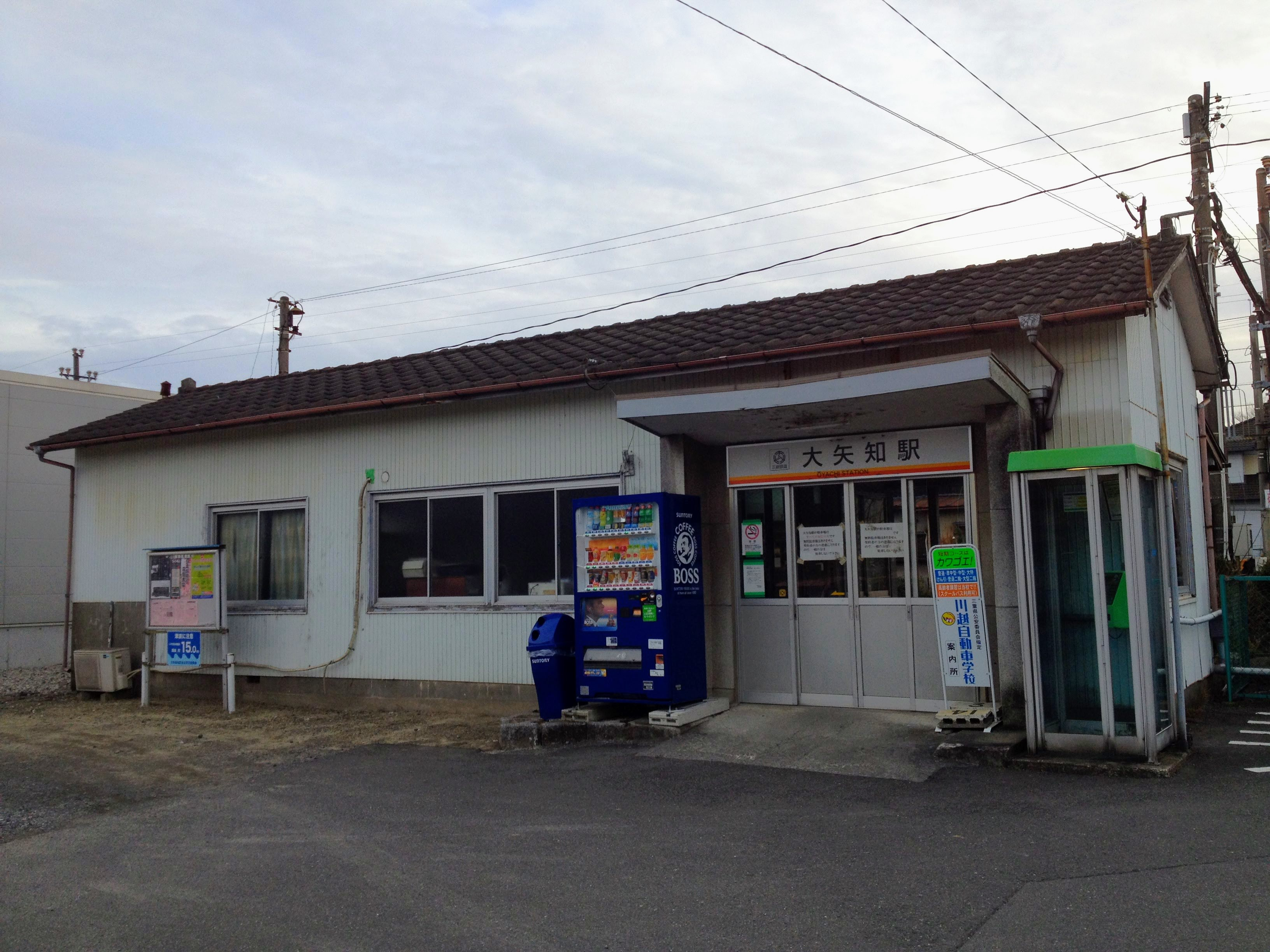 Oyachi Station in Yokkaichi, Mie Prefecture, Japan